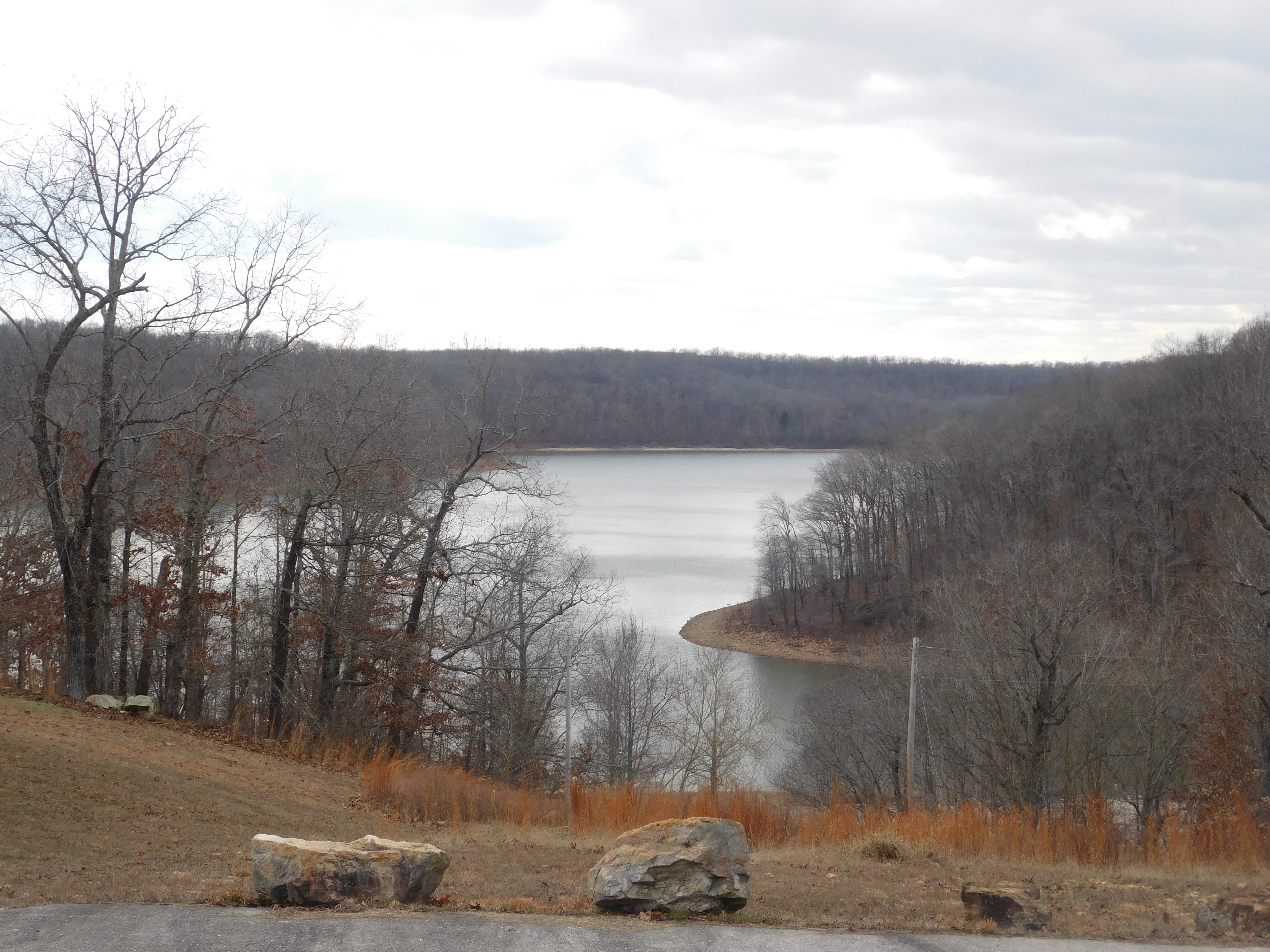 Lake Wappapello as seen from Lake Wappapello State Park.